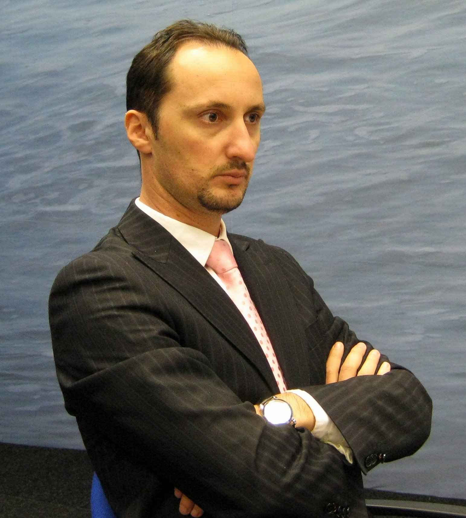 Veselin Topalov, chess grandmaster from Bulgaria, cut version of